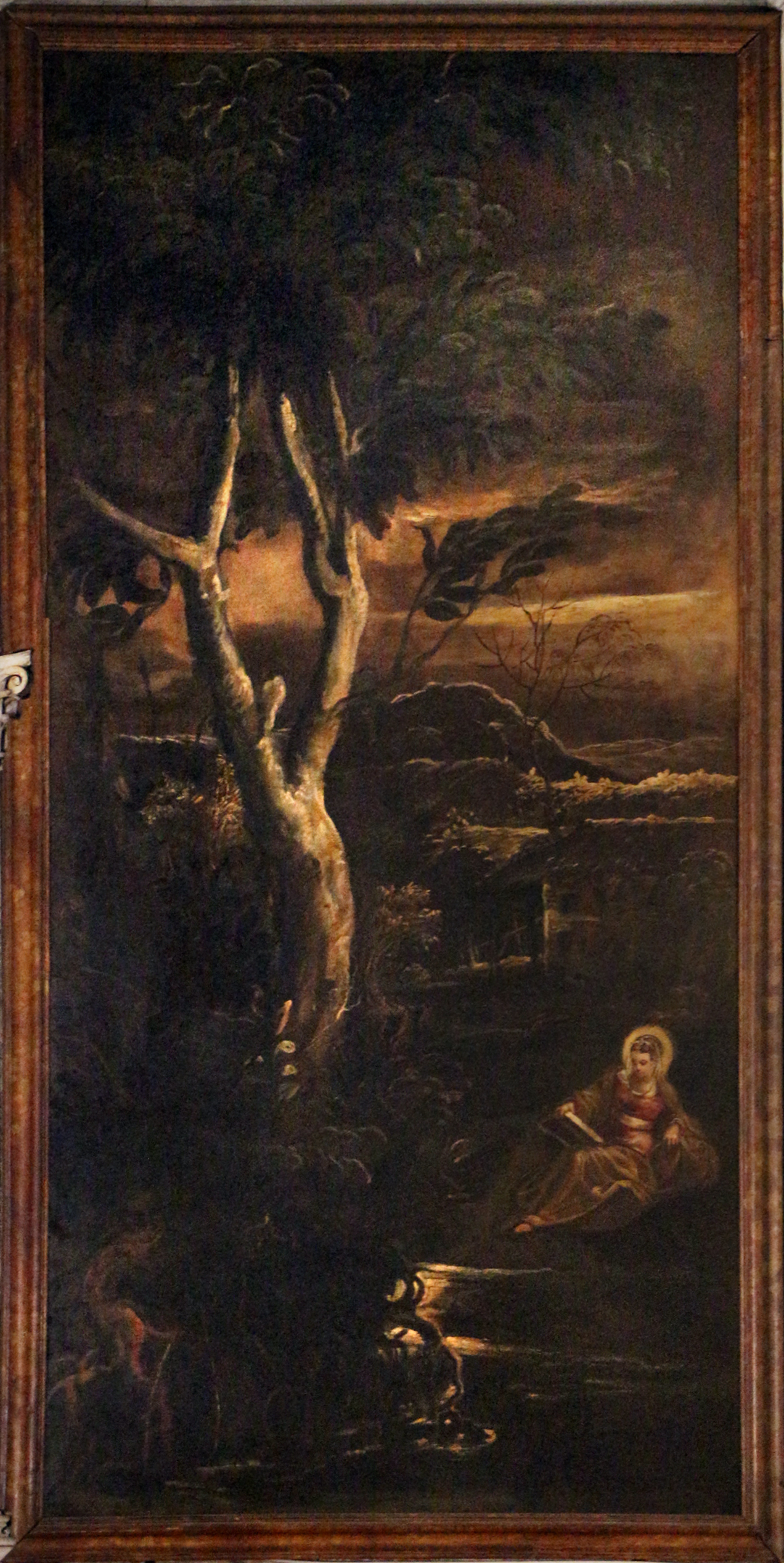 Paintings by Tintoretto in Scuola Grande di San Rocco - Sala terrena